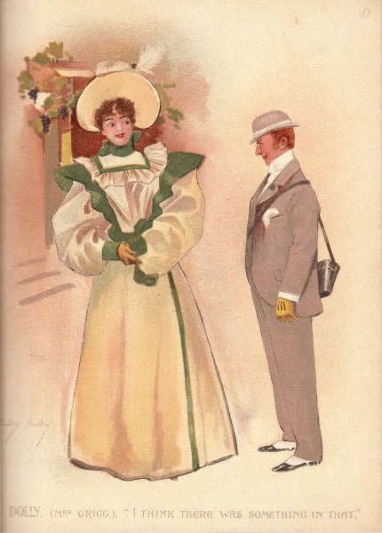 1894 illustration from programme for The Chieftain: Florence Perry as Dolly and Walter Passmore as Grigg